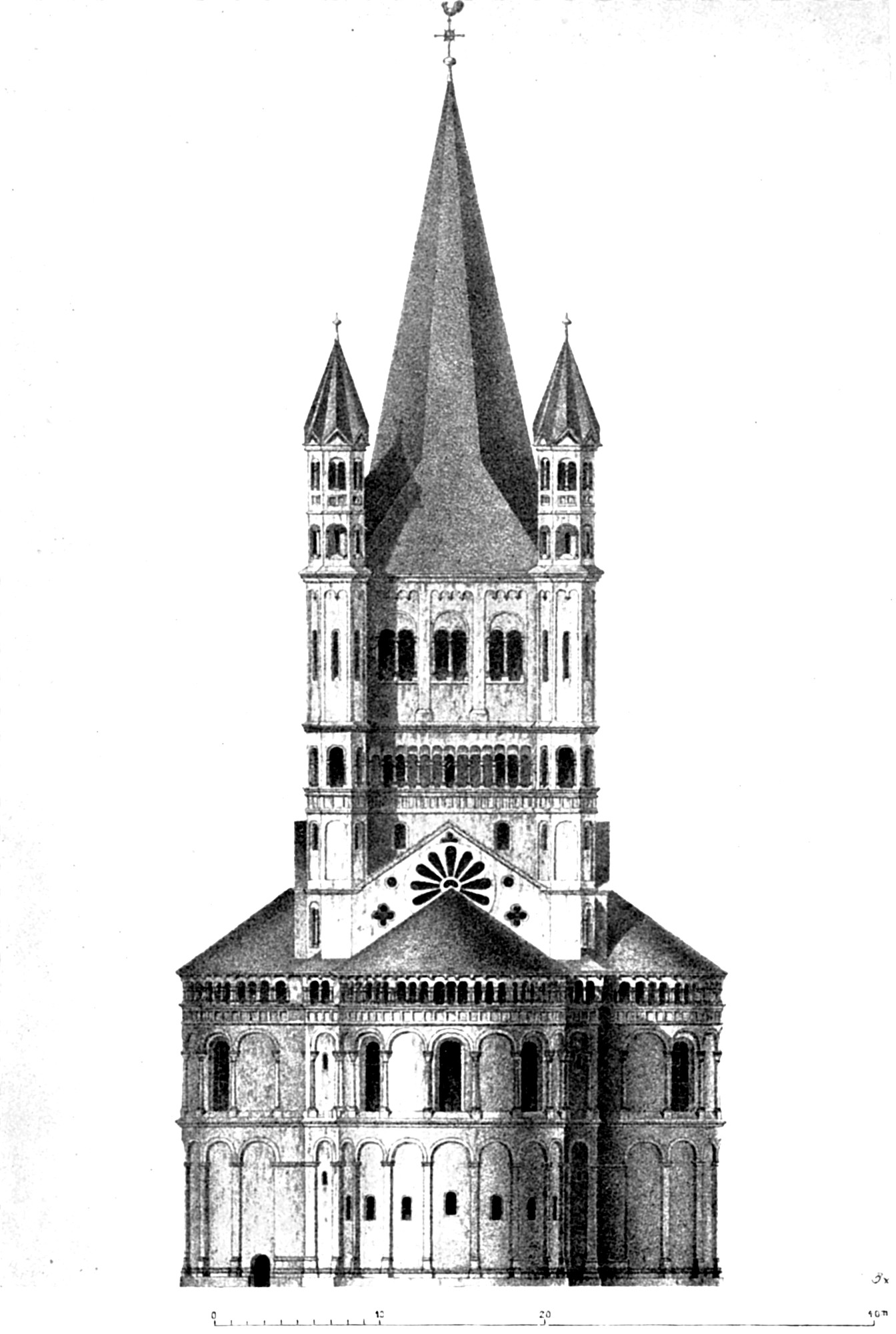 Front elevation of the choir of Groß St. Martin, Cologne